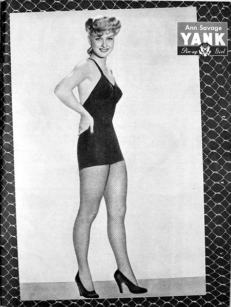 Pin-up photo of Ann Savage for the Feb. 4, 1944 issue of Yank, the Army Weekly, a weekly U.S. Army magazine fully staffed by enlisted men.